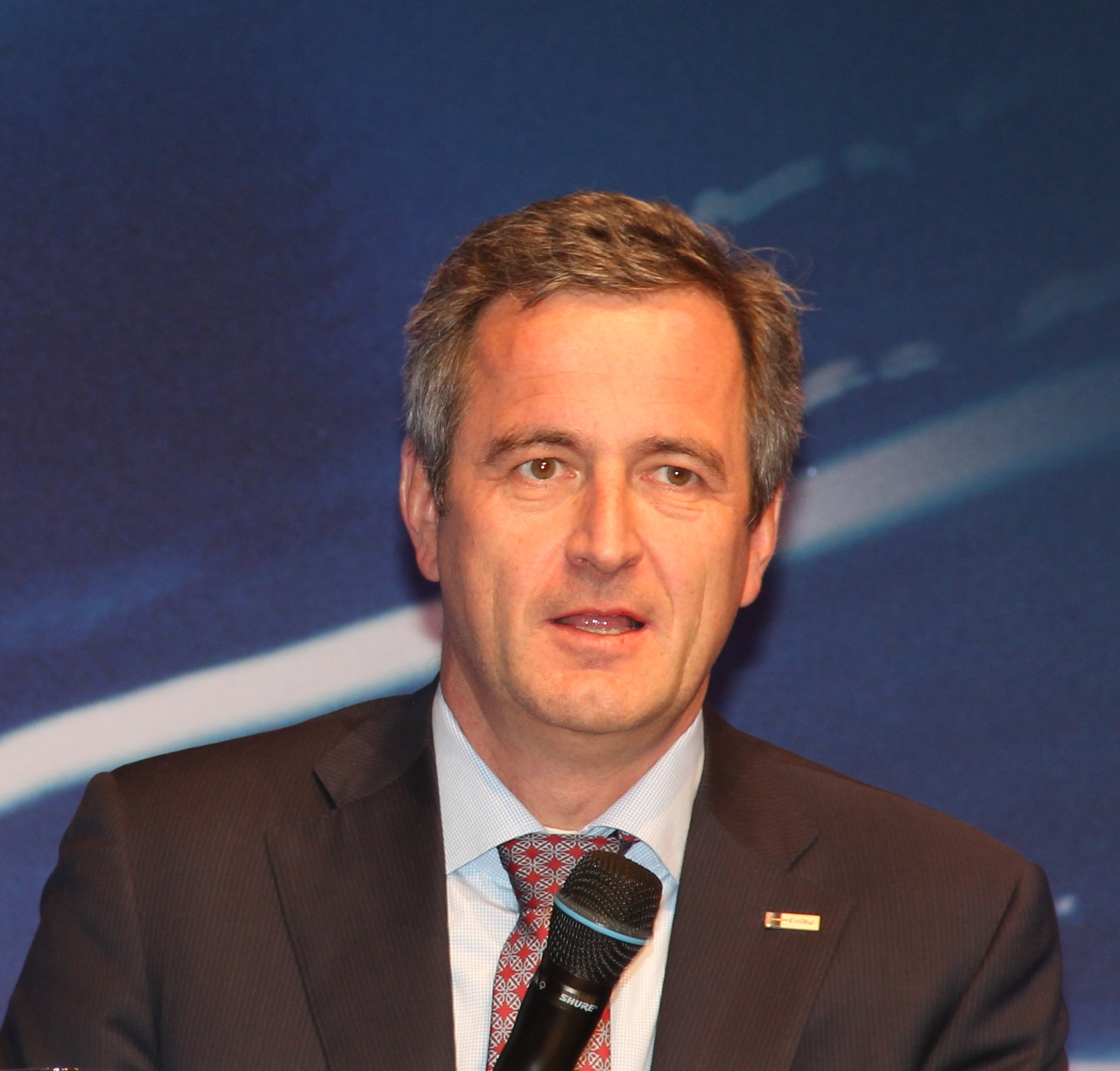 Frank Mastiaux, CEO of EnBW